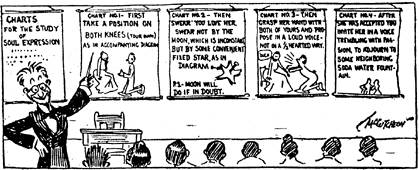 Panel from cartoonist John McCutcheon's three-panel lampoon of Professor "Foxy Truesport." Published in the Chicago Record-Herald, May 9, 1903. Source: Michigan Today, March 1995. Article: THE SUSPENSION OF JAM HANDY In Which a Professor is Ridiculed, a University President is Unforgiving, and a 17-year-old Freshman Receives Chastisement, by Linda Robinson Walker